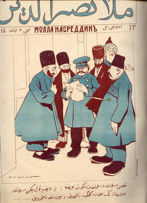 Molla Nasreddin magazine (on Azeri), published between 1906-1931